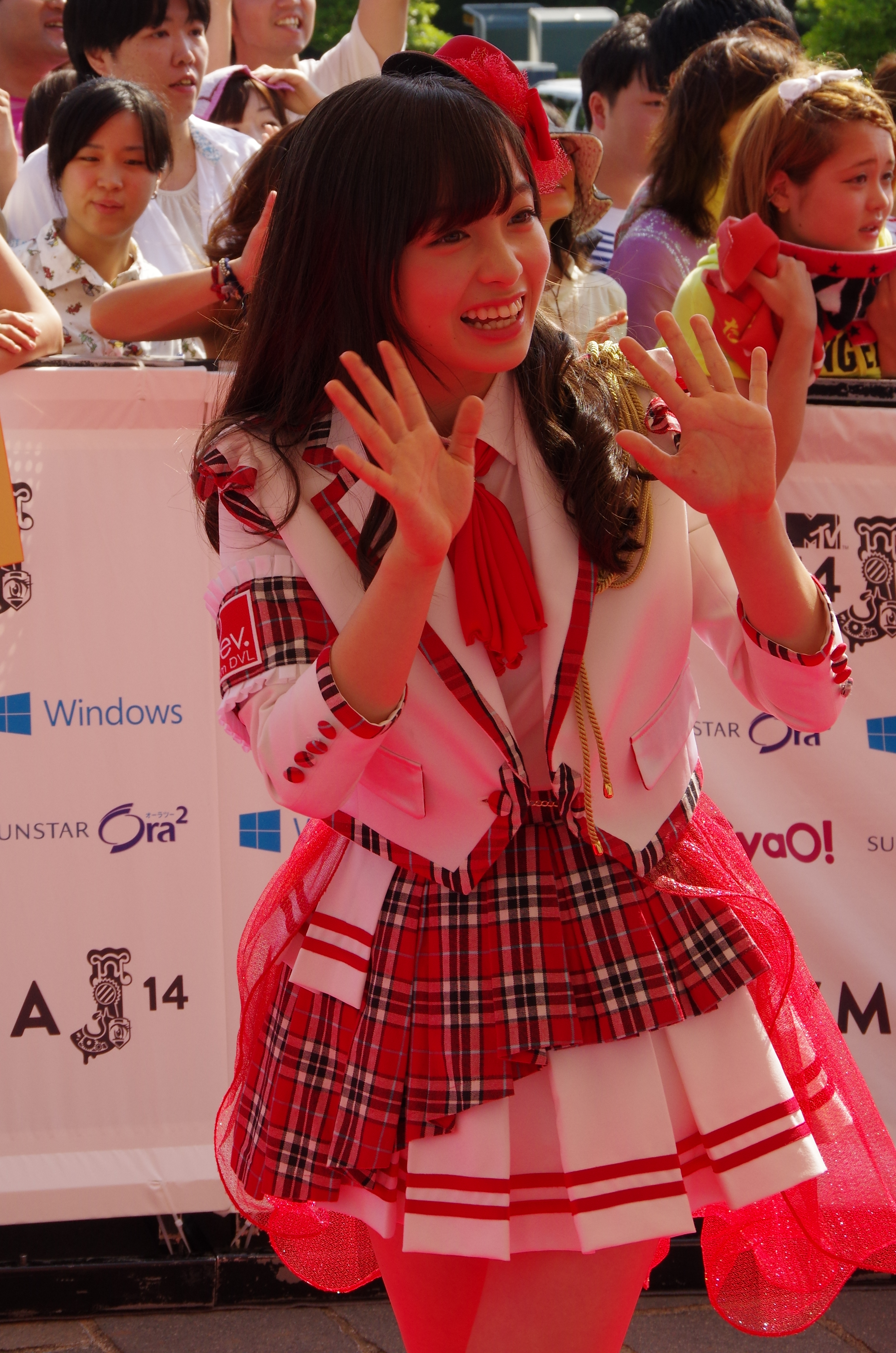 Japanese idol Kanna Hashimoto at the 2014 MTV Video Music Awards Japan.